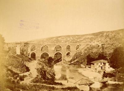 Roman aqueducts in Buca, İzmir, Turkey, locally known as Kızılçullu Aqueducts by the name of their locality.